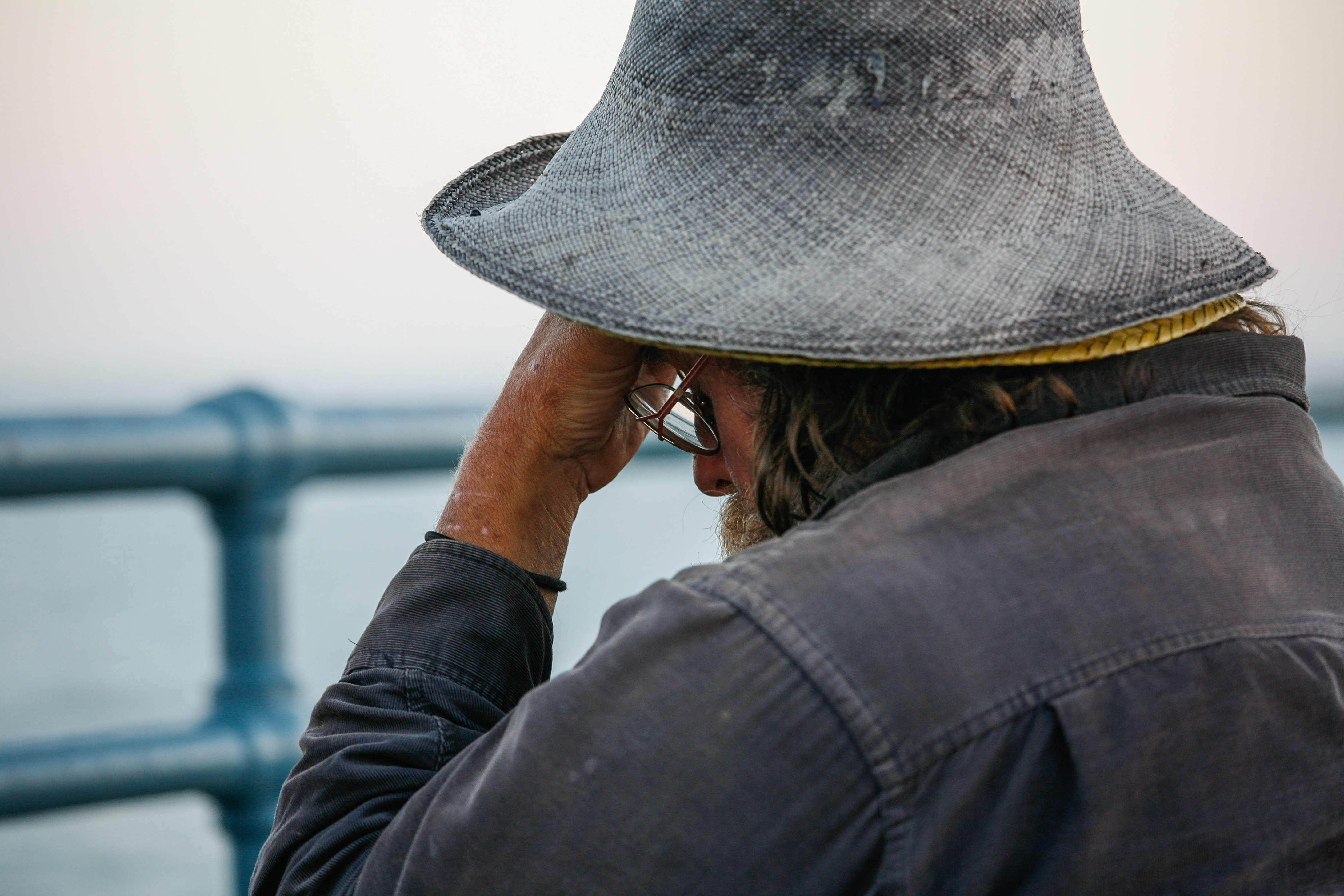 The Concern